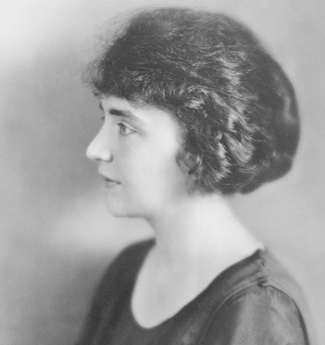 Marjorie Acker Phillips, circa 1920-21